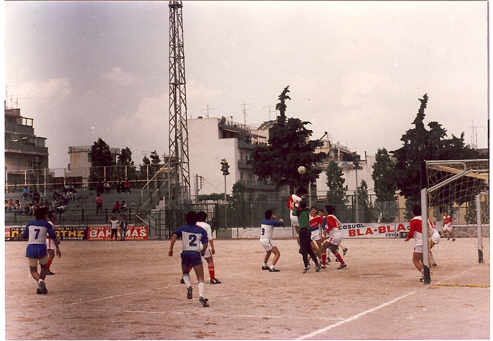 Greek University Championship Final 1988